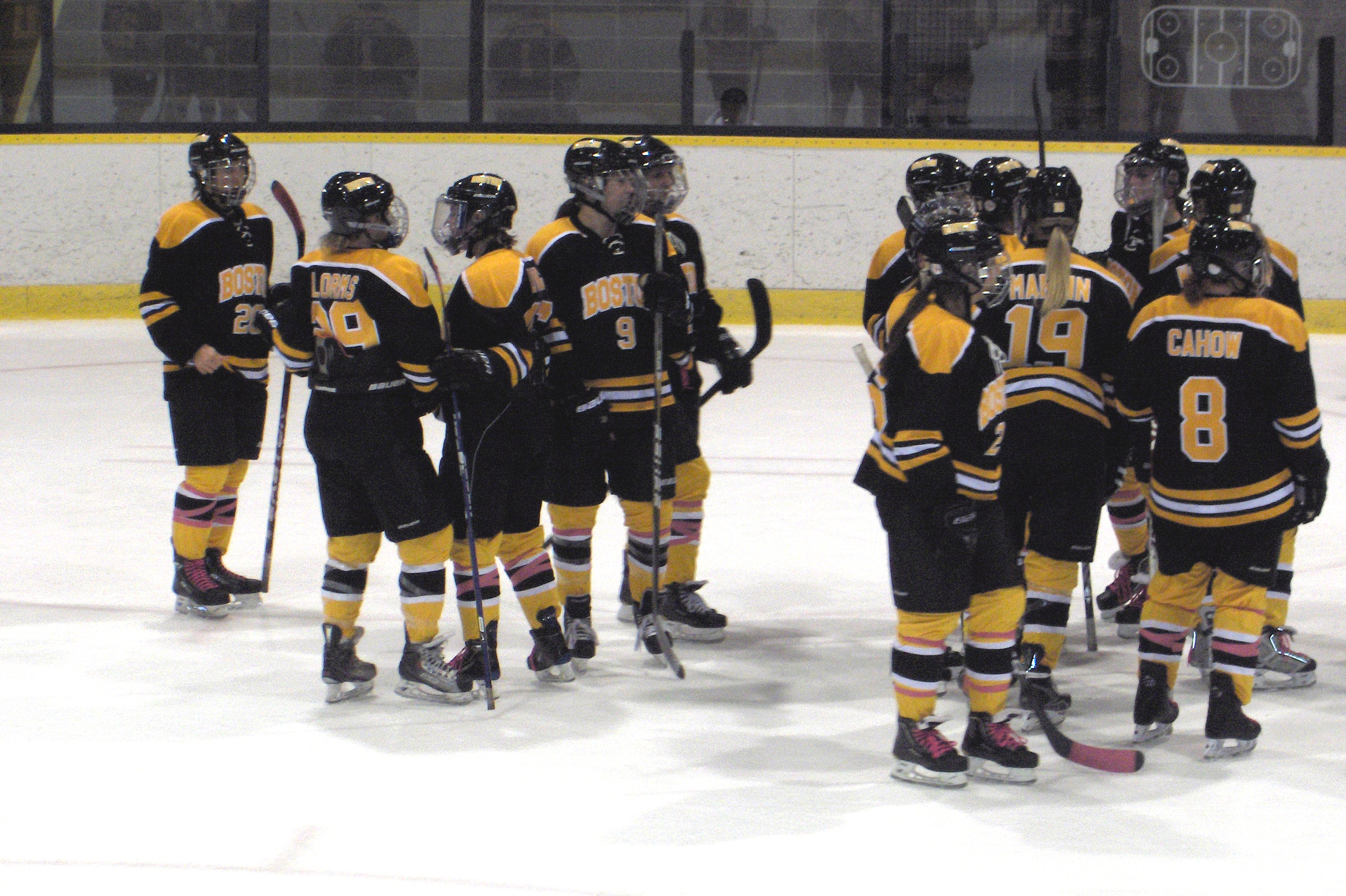 Boston Blade, CWHL It is the same photo to File:Boston Blades CWHL.jpg but now with photoshop processing